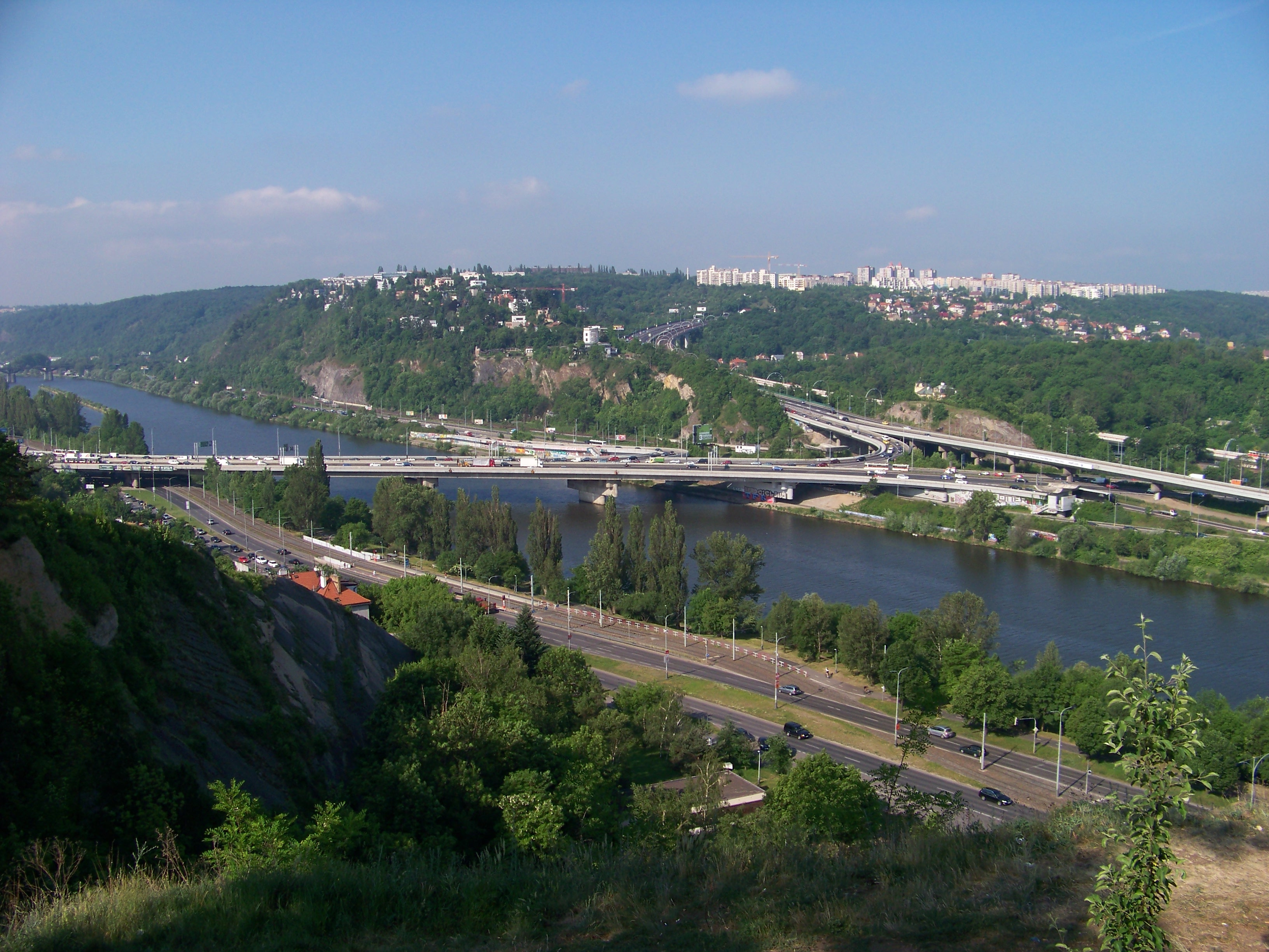 A view from Dobeška hill (Prague-Braník, the Czech Republic). Barrandov.